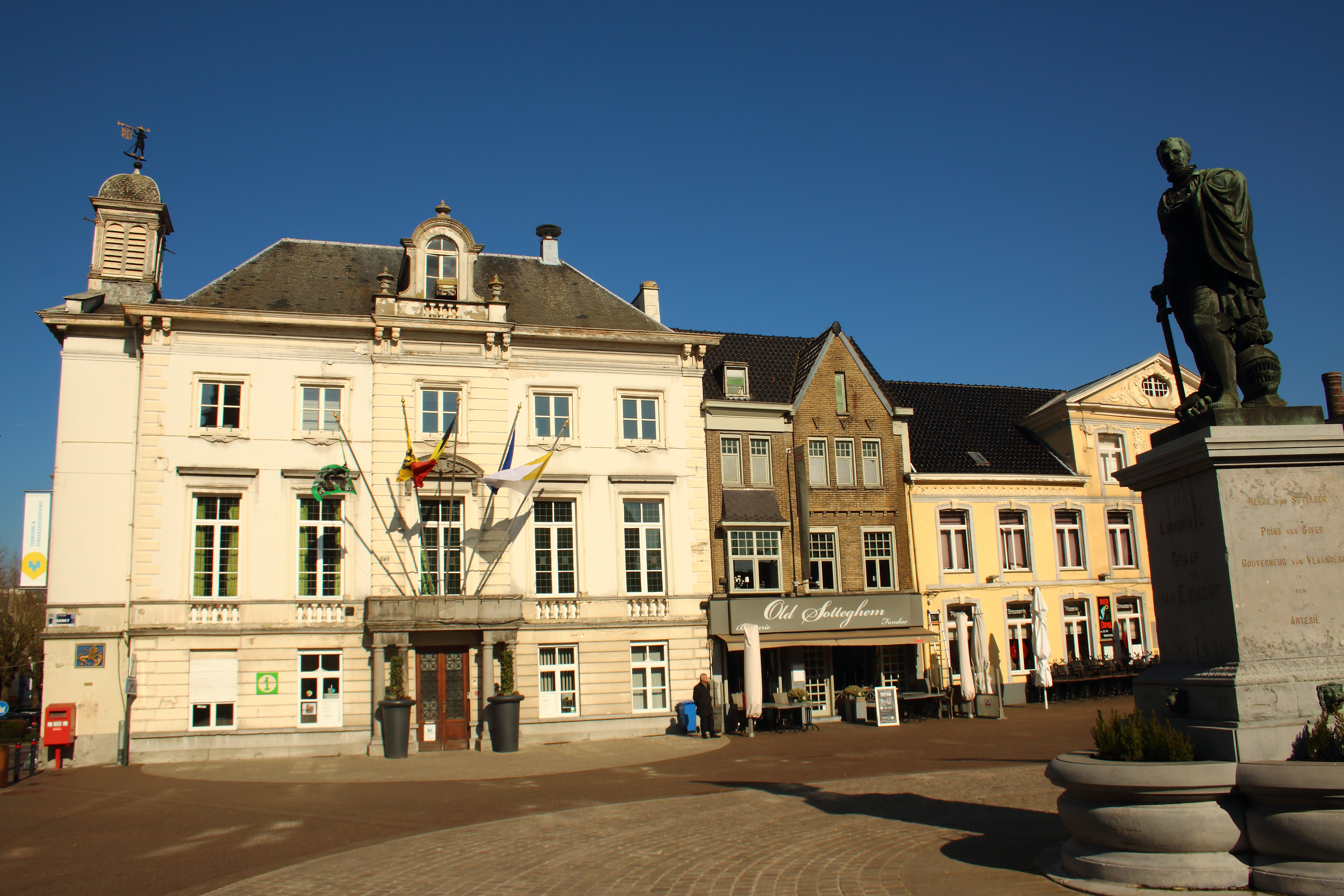 market square with town hall and Egmont's statue, Zottegem, Flanders, Belgium